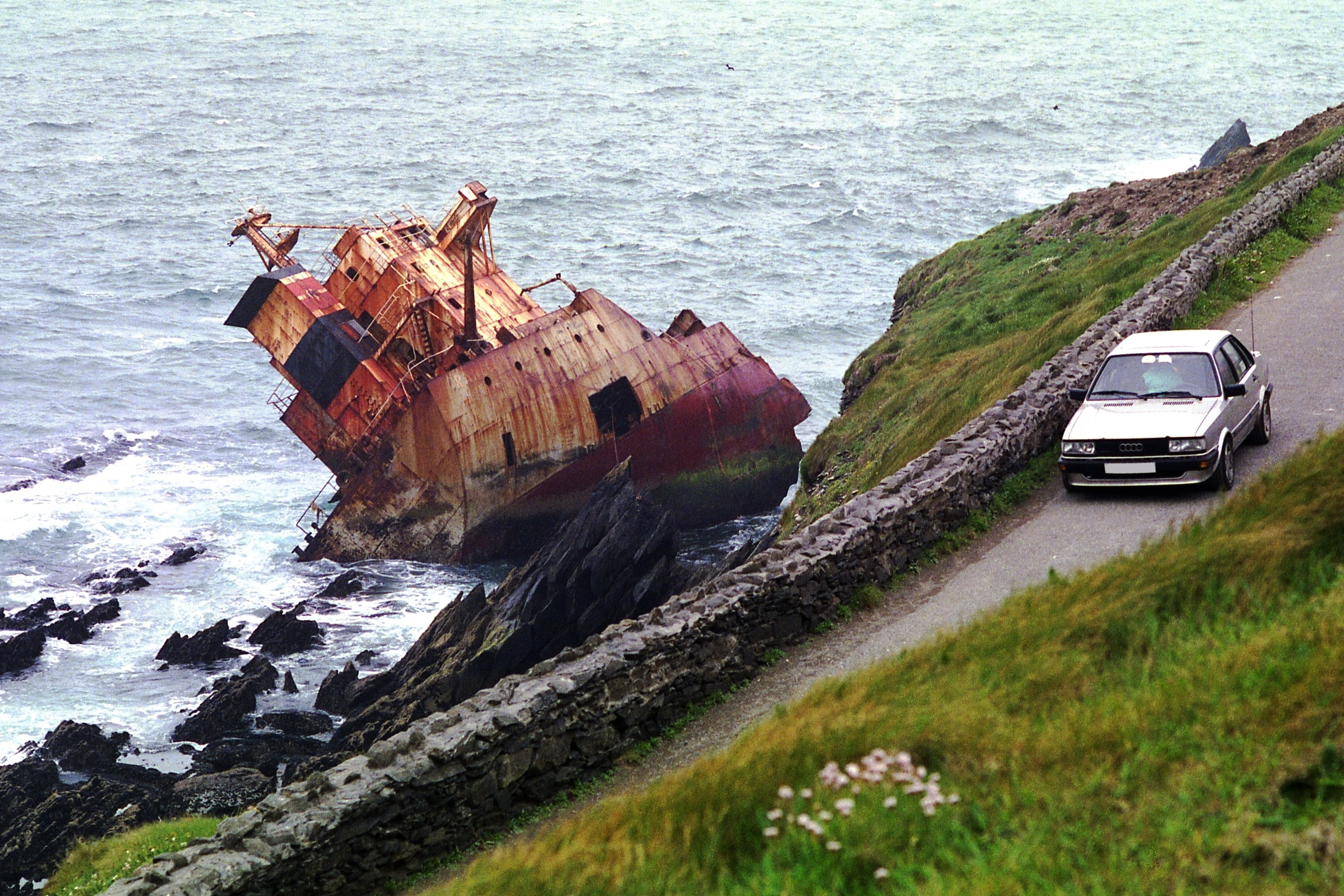 The shipwreck of the MV Ranga pictured at Dunmore Head near Slea Head at the Dingle Peninsula in Ireland in June 1986.